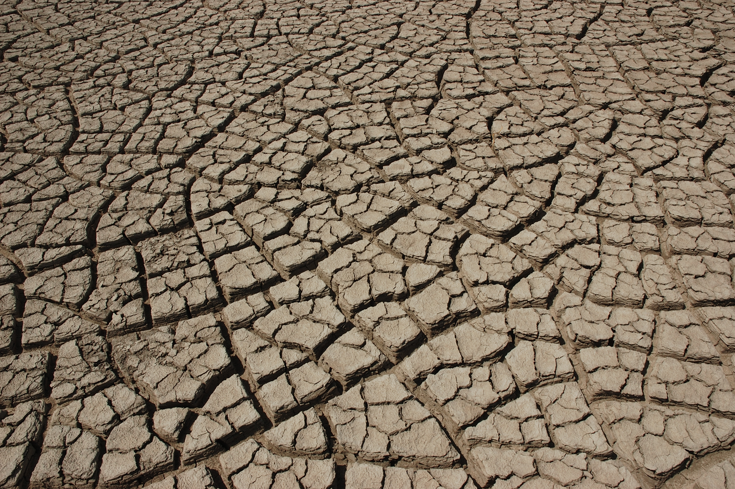 Earth in the Rann of Kutch cracking as it dries